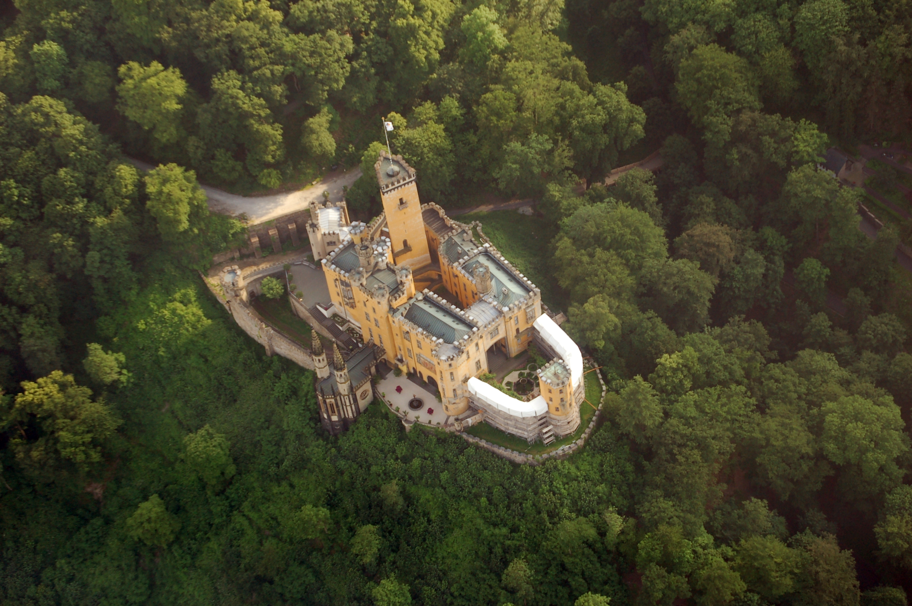 Aerial photograph of Schloss Stolzenfels, Rhineland-Palatinate, Germany